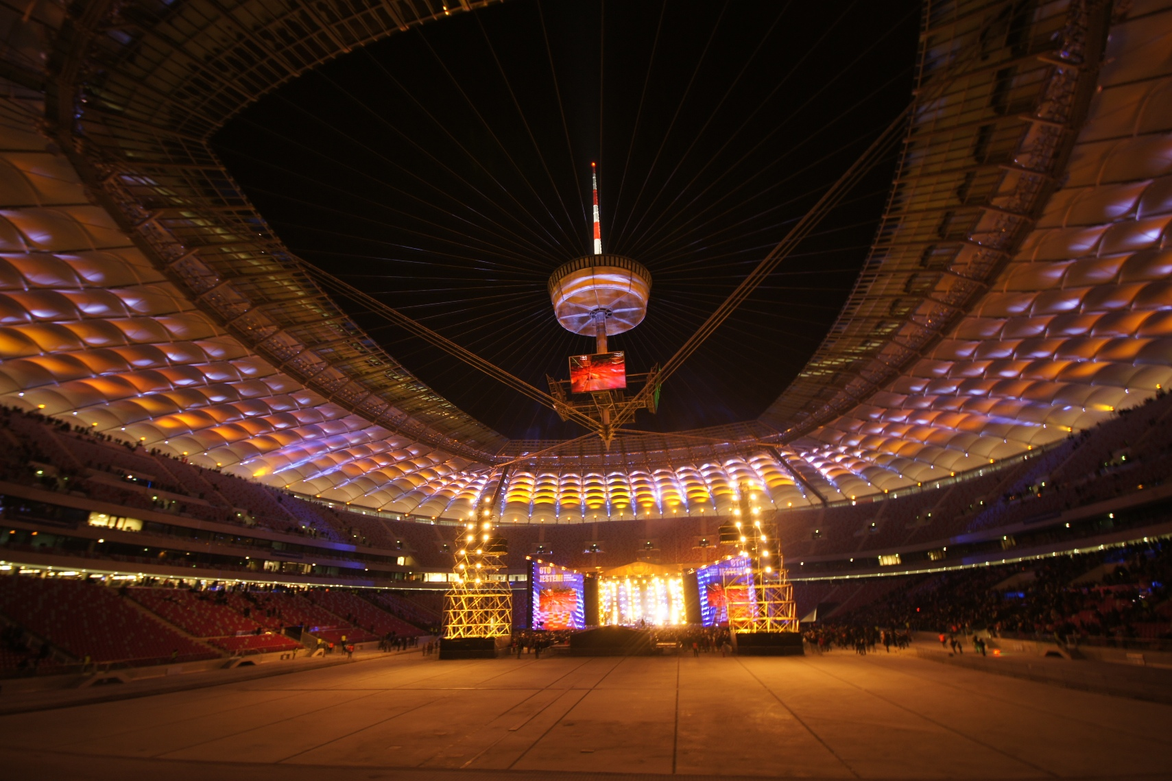 The inauguration event at the National Stadium in Warsaw